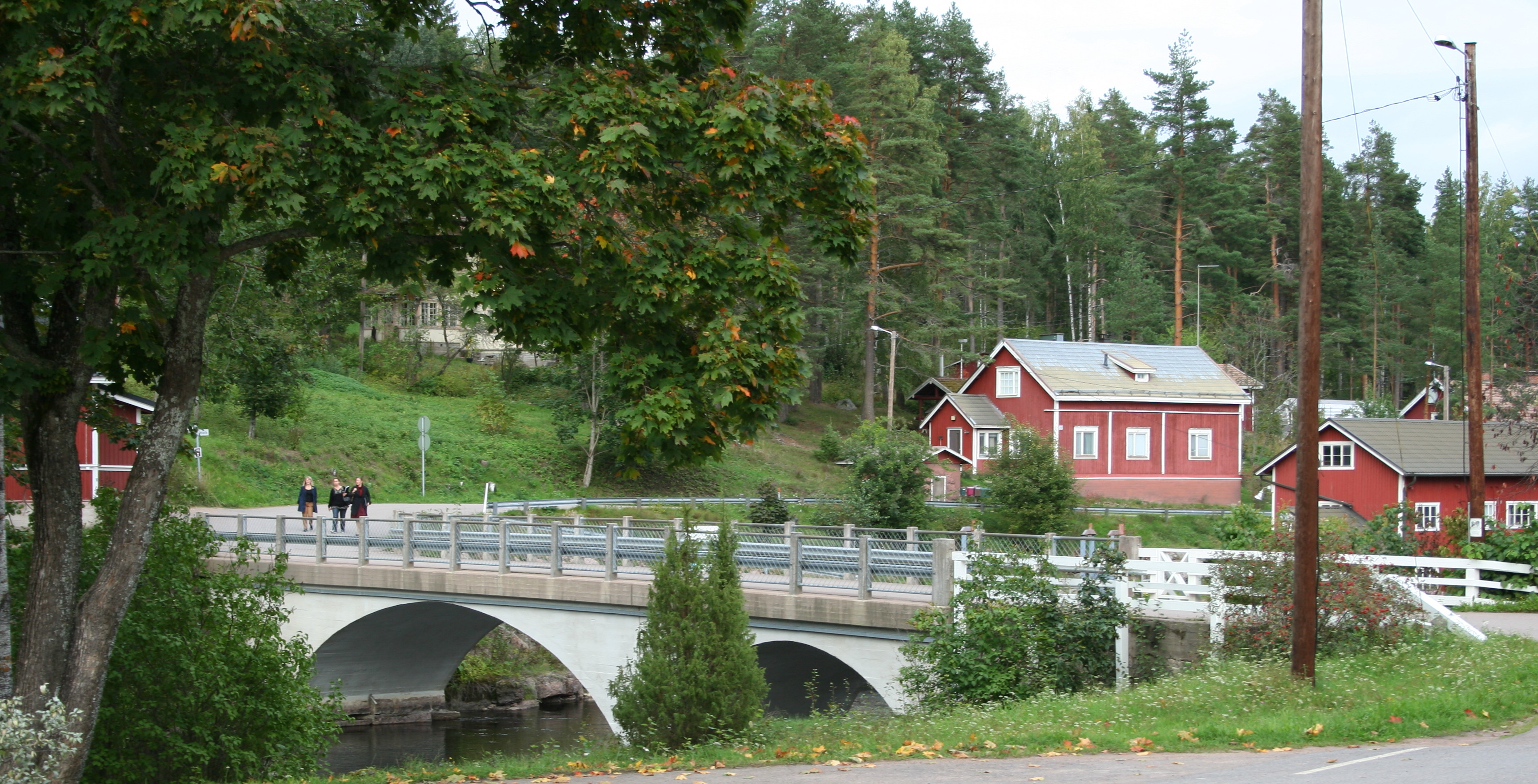 Verla village, Kouvola, Finland. - Bridge crossing Verla rapids.